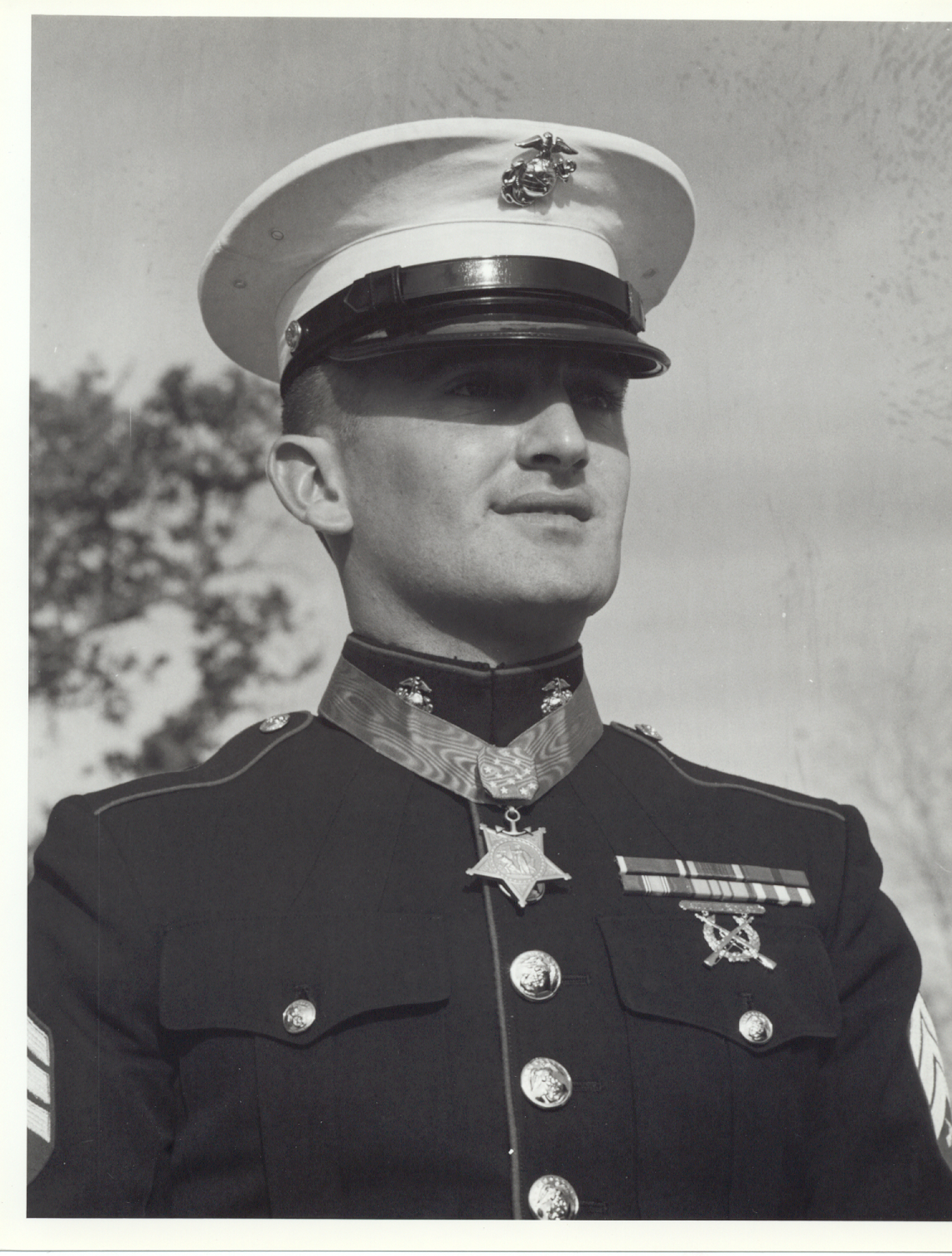 Sergeant Robert E. O'Malley, USMC; Medal of Honor recipient